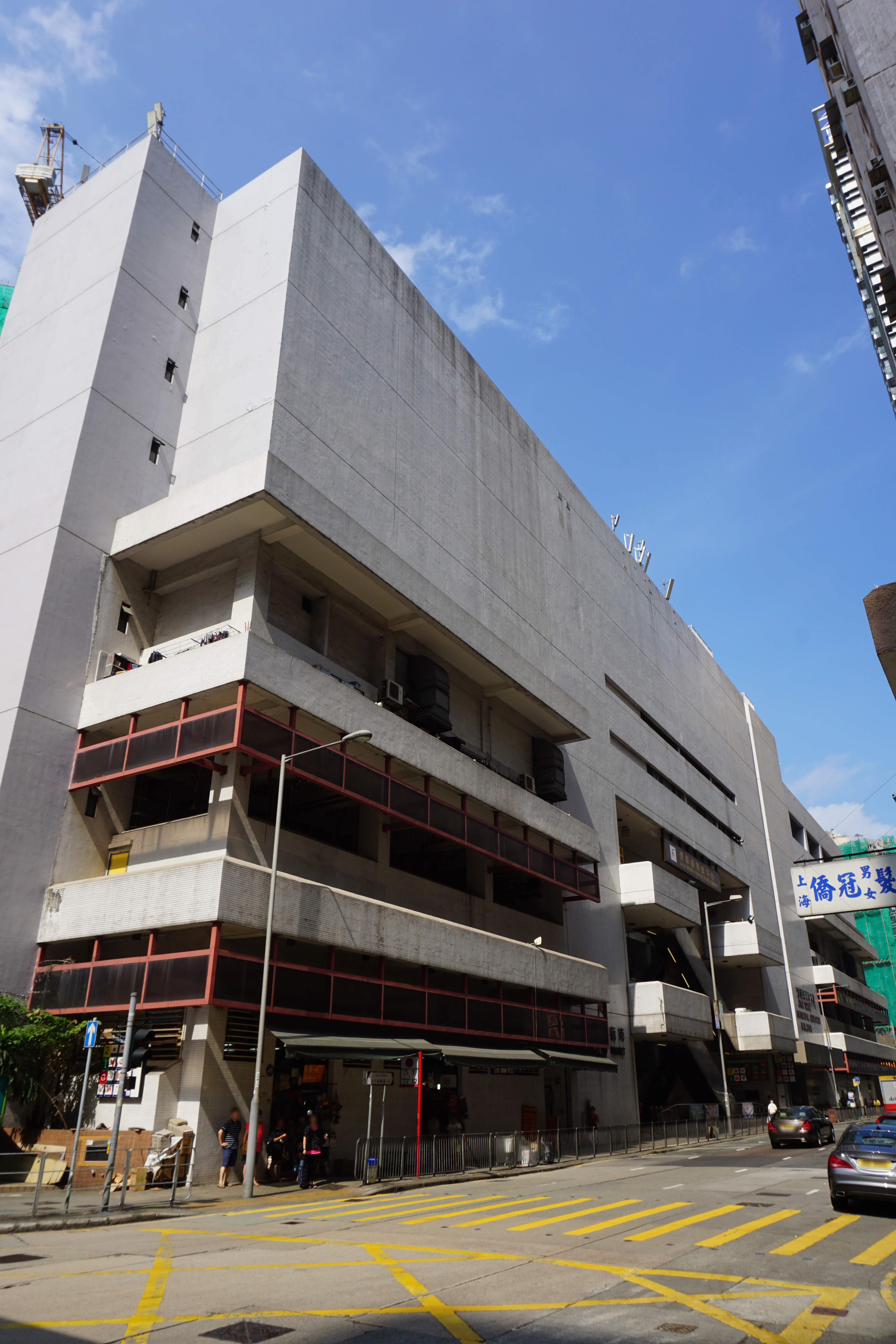 Java Road Municipal Services Building in North Point, Hong Kong.